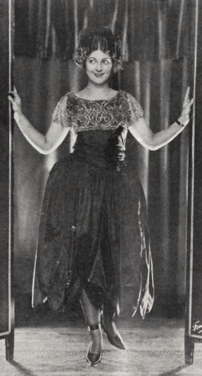 Still from the American drama film The Storm Daughter (1924) with Priscilla Dean, on page 11 of the December 8, 1923 Universal Weekly.